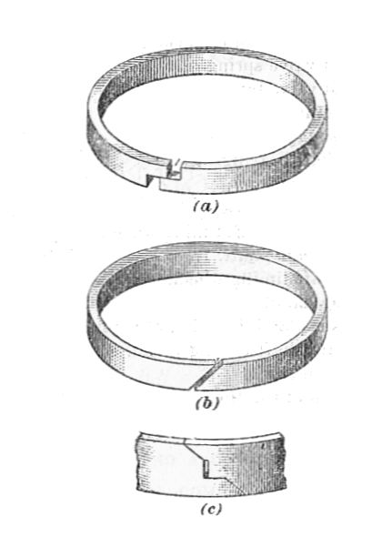 Piston ring joints (Army Service Corps Training, Mechanical Transport, 1911).jpg